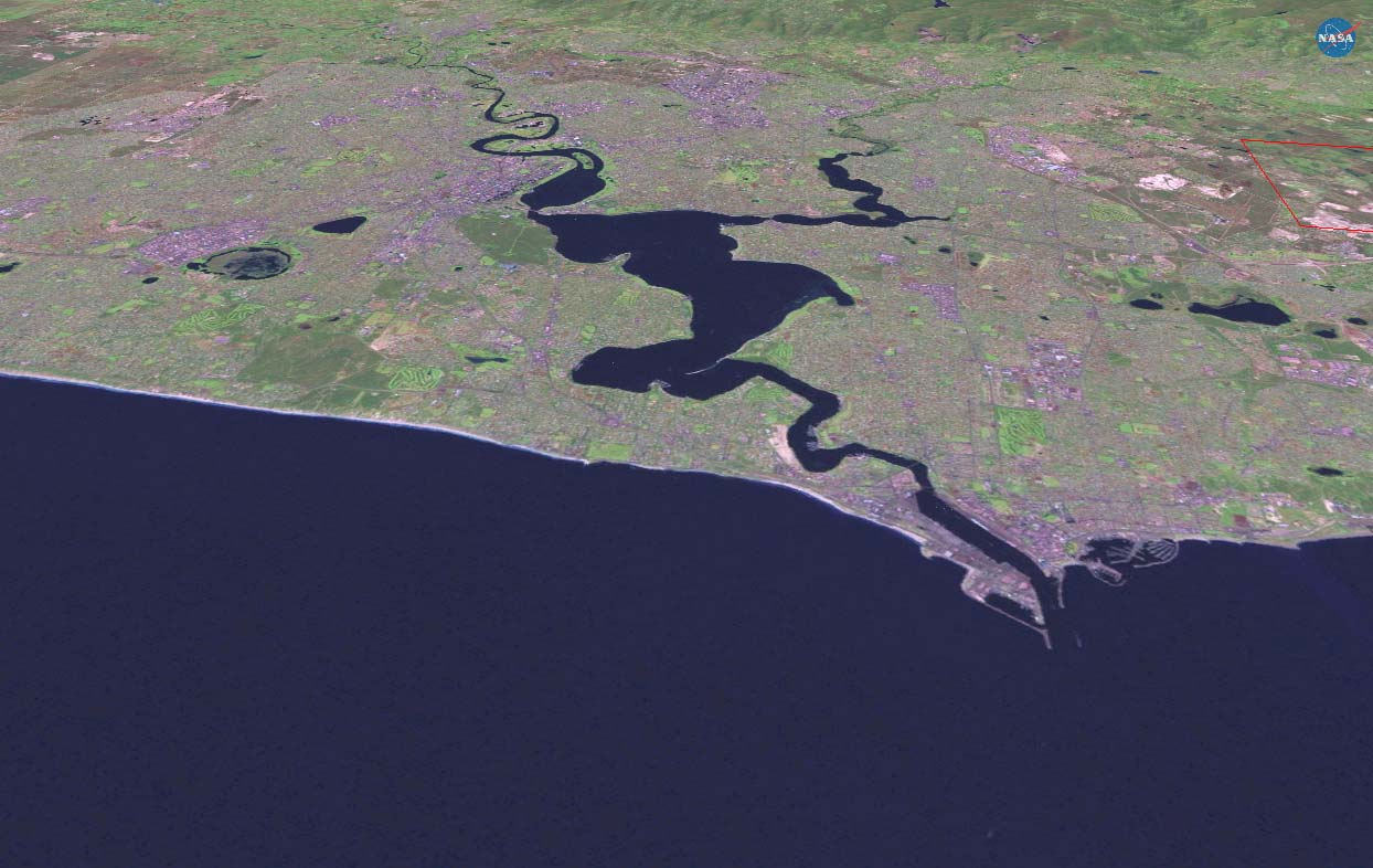 Perth, Australia